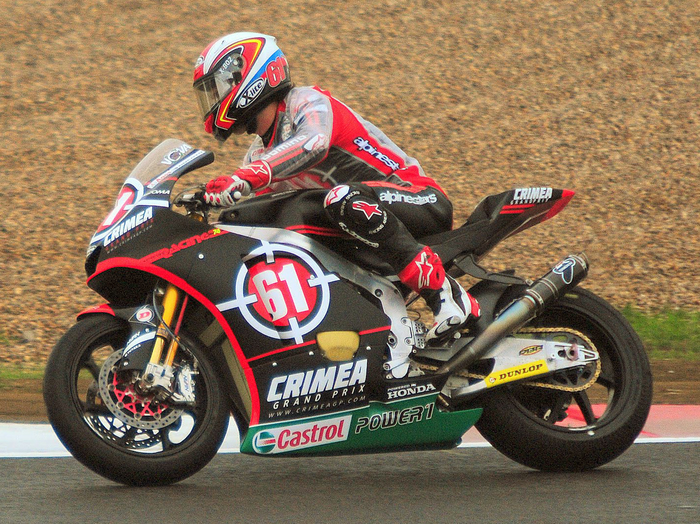 Vladimir Ivanov 2010 Silverstone